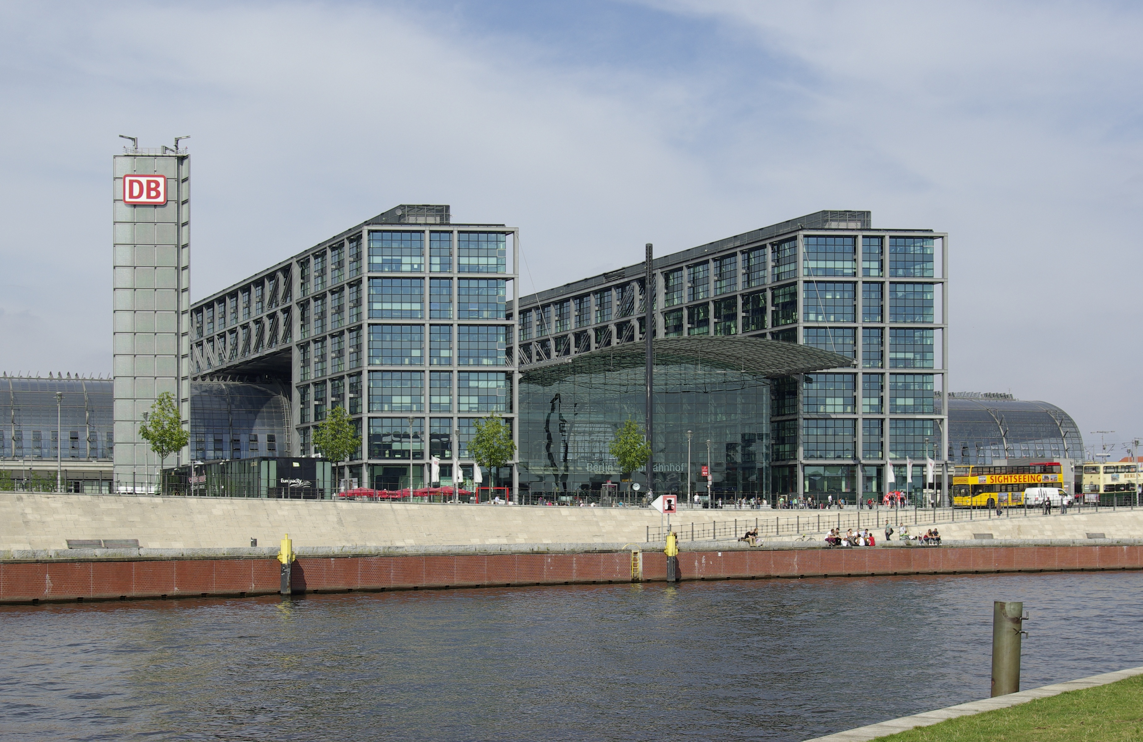 South facade of Berlin Central Station